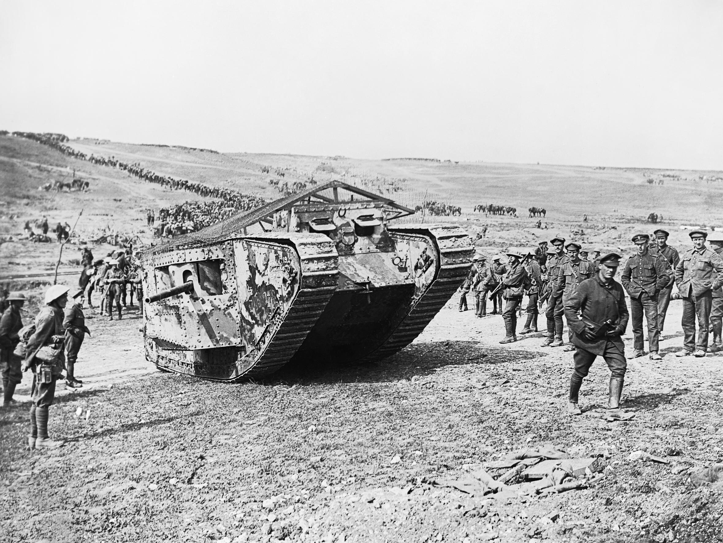 The Mark I 'Male' tank 'C19' 'Clan Leslie' in Chimpanzee Valley preparing for the advance on Flers.